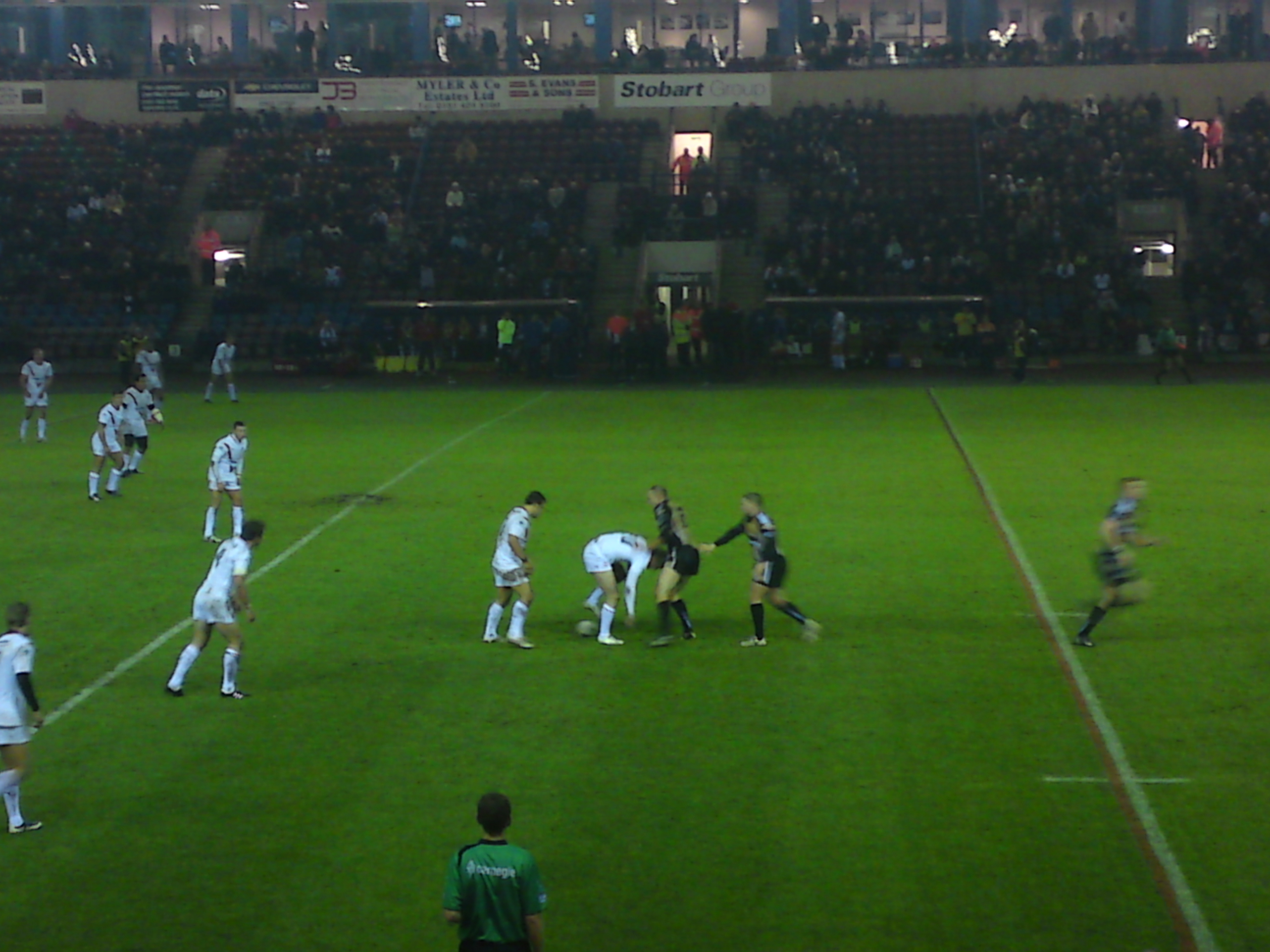 Widnes Vikings vs St Helens Karalius Cup 2010. Taken from the North Stand at the Stobart Stadium (Halton Stadium)